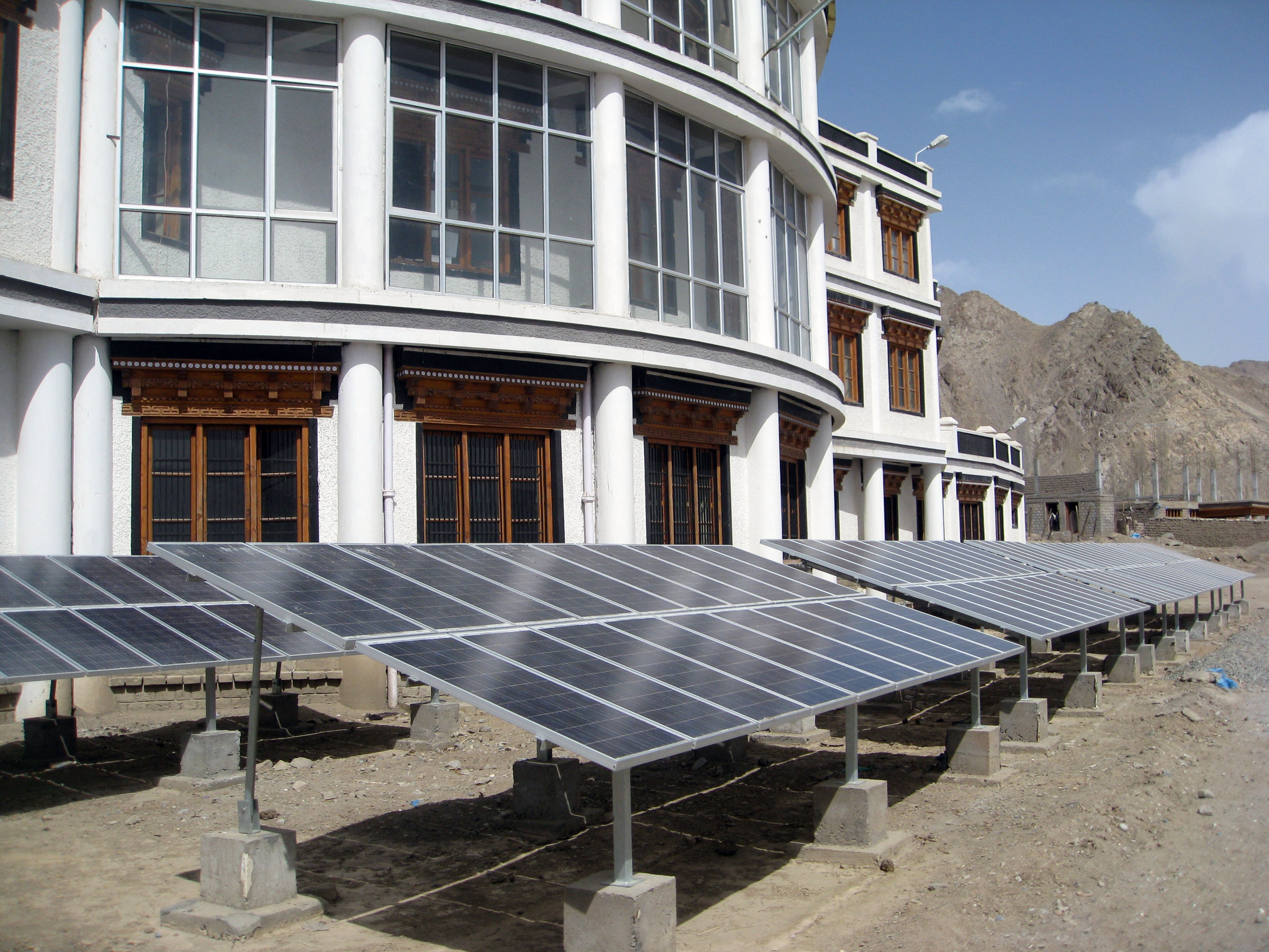 SPV modules LREDA Office Leh-Ladakh